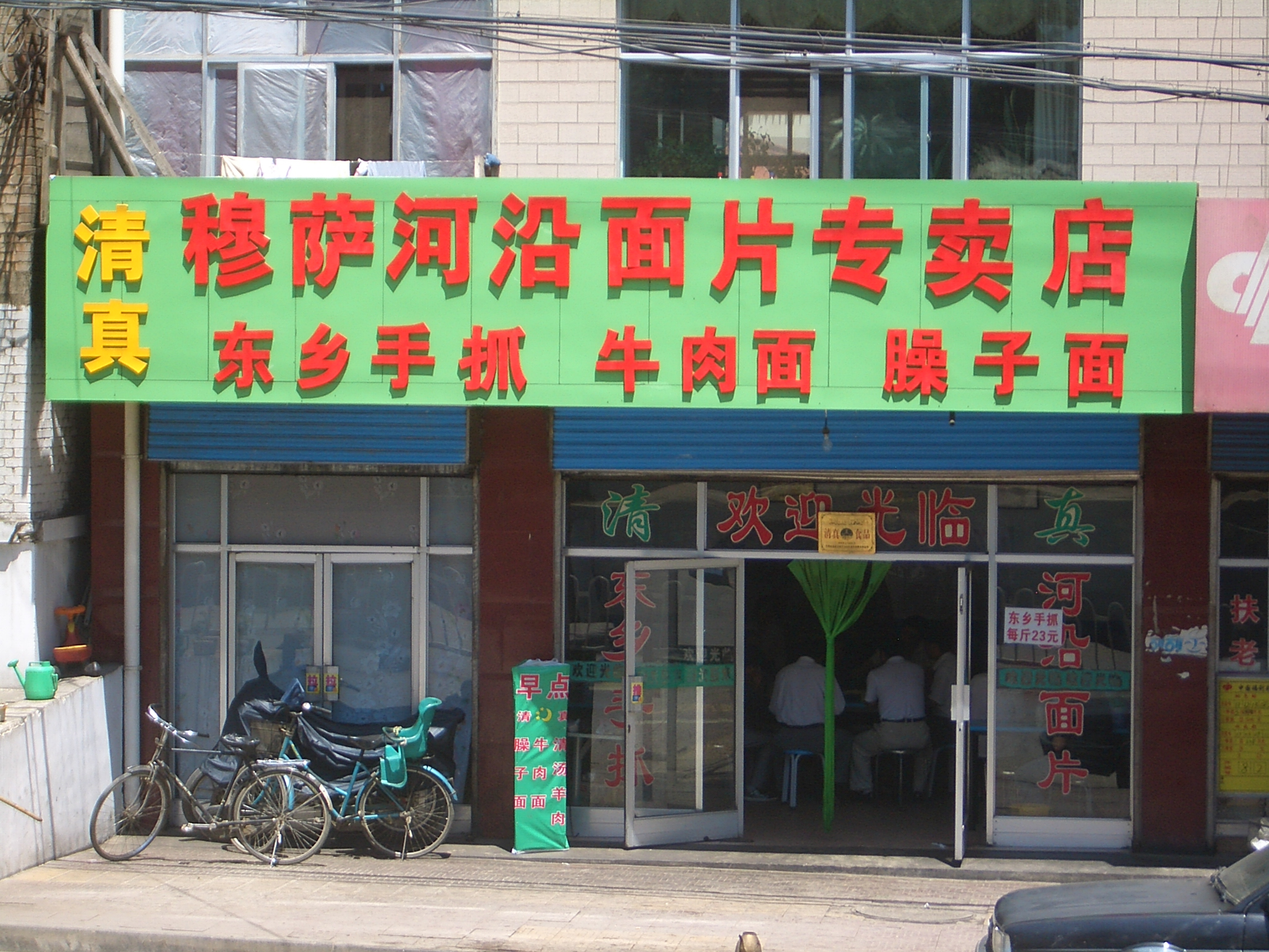 Musa's Heyan Flatbread Restaurants, in Tuanjie St, the main street of Linxia City, advertising Dongxian meat and bread dishes: Dongxiang Shouzhuo, Beef Noodles, Heyan Mianpian ("Riverside flat bread?"